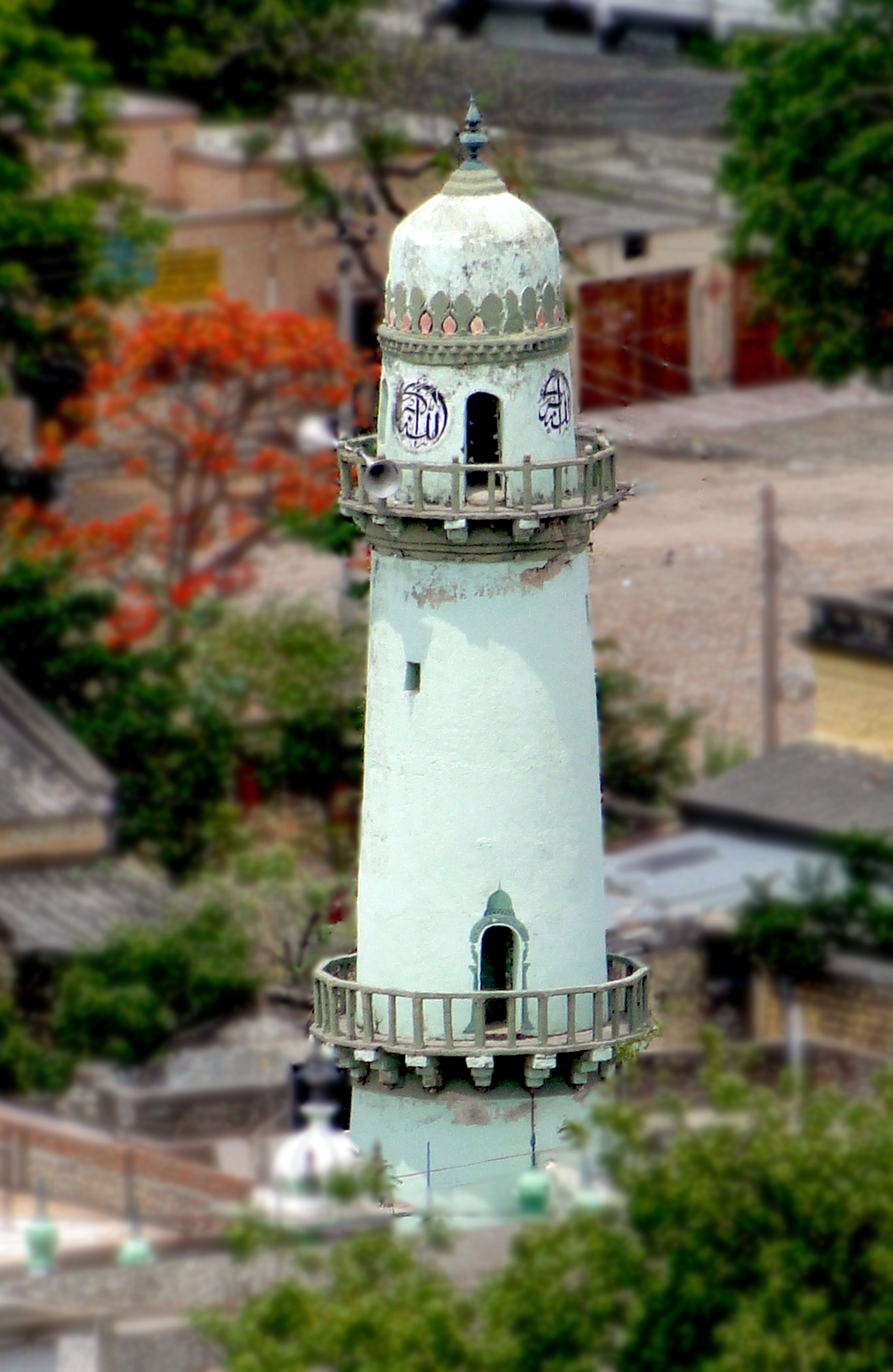 e Ek-Minar-ki_Masjid. One Amber constructed this mosque, according to the Persian inscription on its threshold. In this mosque also, the pillars supporting the roof of the entrance . It has only one minaret, as its name itself suggests. The minaret, about 65 ft (20 m). high and 13 ft (4.0 m). in diameter, is built in Persian style and is identical in form with the Chand Minar at Daulatabad erected in 1445 by Ala-ud-din Bahmani and the minaret of the famous college of Mahmud Gawan at Bidar built during 1472. The minaret, which consists two storeys, each furnished with windows and surrounded by projecting galleries girded with stone railings, gradually tapers from bottom to top and has, at the top, a round dome in the Bahmani style. A winding staircase leads up to the top-storey, from which an excellent view of the town can be had. Apart from its architectural peculiarities, this mosque, as the inscriptions in the building show, is the oldest place of Muslim worship in the town.